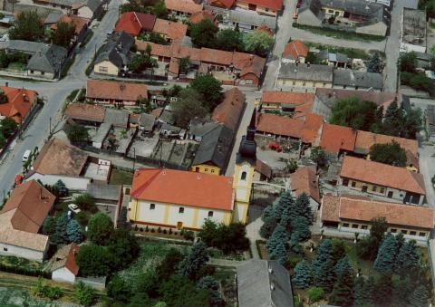 Izsák, Hungary, aerialphotgraphy